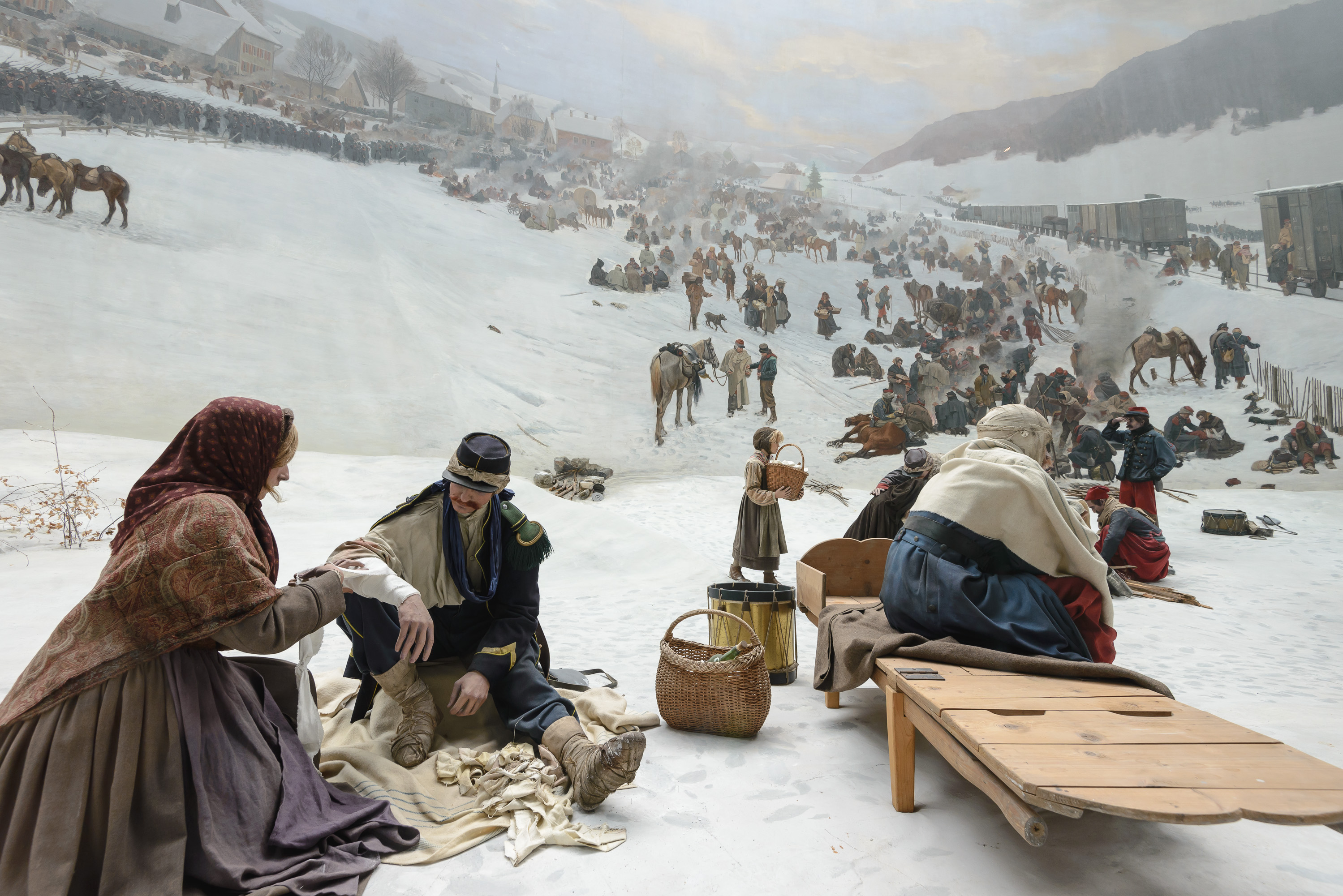 Bourbaki-Panorama (Sammlung)